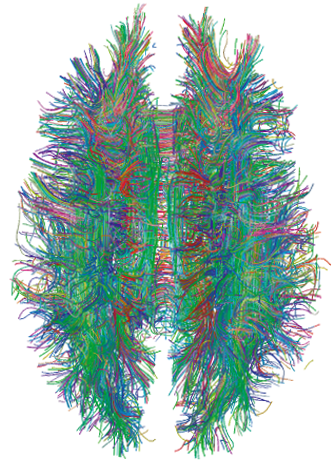 diffusion MRI Tractography in the brain white matter.